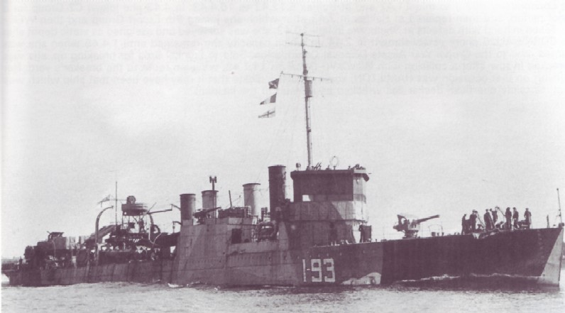 HMCS St. Francis (ex-USS Bancroft, DD-256) early in her war service with mainmast reduced to a stump, shortened funnels, a modified bridge, radar Type 286 and the usual 12pdr aft and the loss of the after tubes.